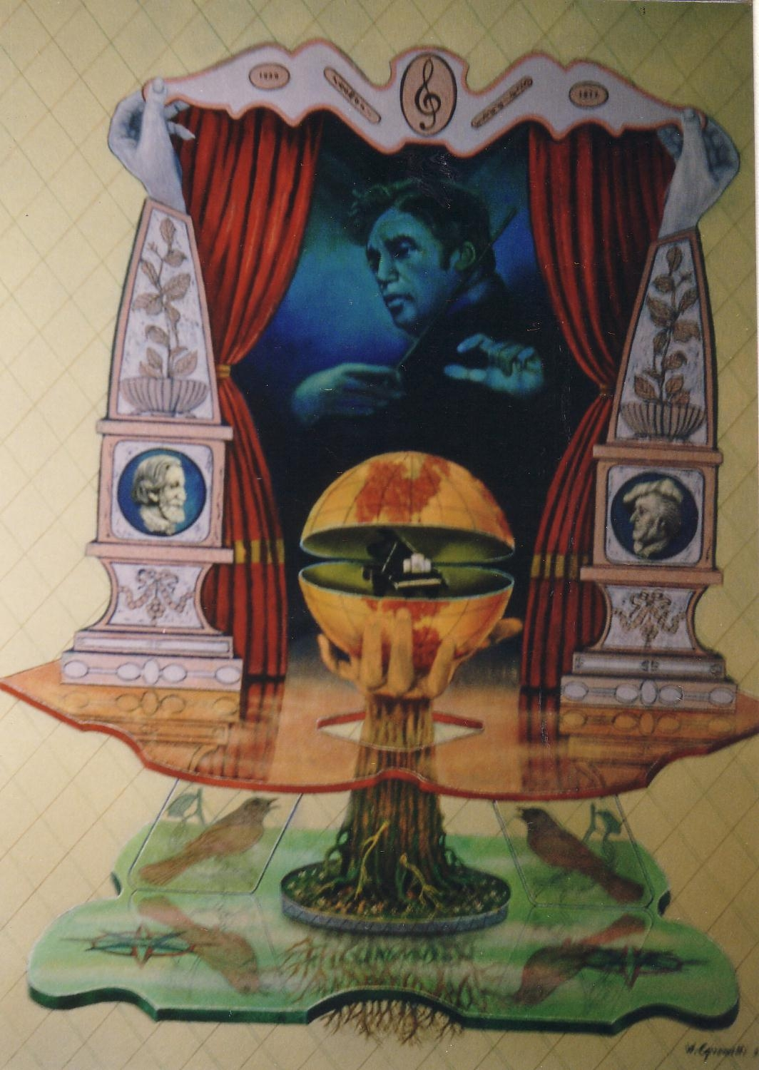 Work of the Italian painter William Girometti, title: "In homage to Thomas Schippers", 1991, oil on canvas, cm. 80x100 - owned by his daughter.